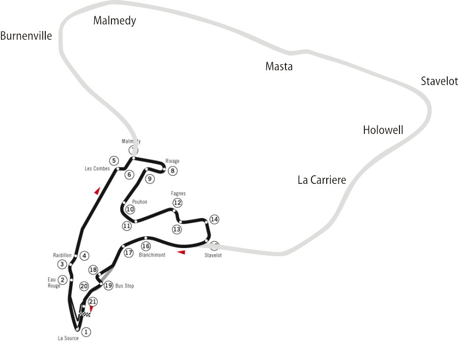 The old configuration Circuit de Spa-Francorchamps (in comparison to modern).